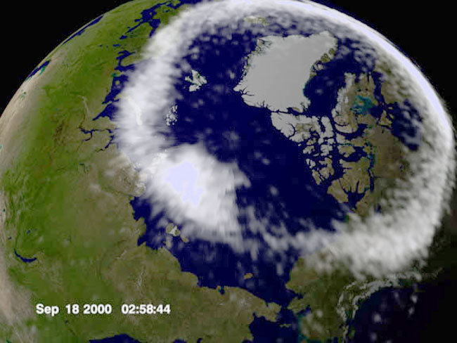 False-colour image of ultraviolet Auroral lights from particles excited by colissions with protons, so called Proton Aurora, from NASA's IMAGE satellite, overlaid on cloudless satellite image composite of Earth in visible light.